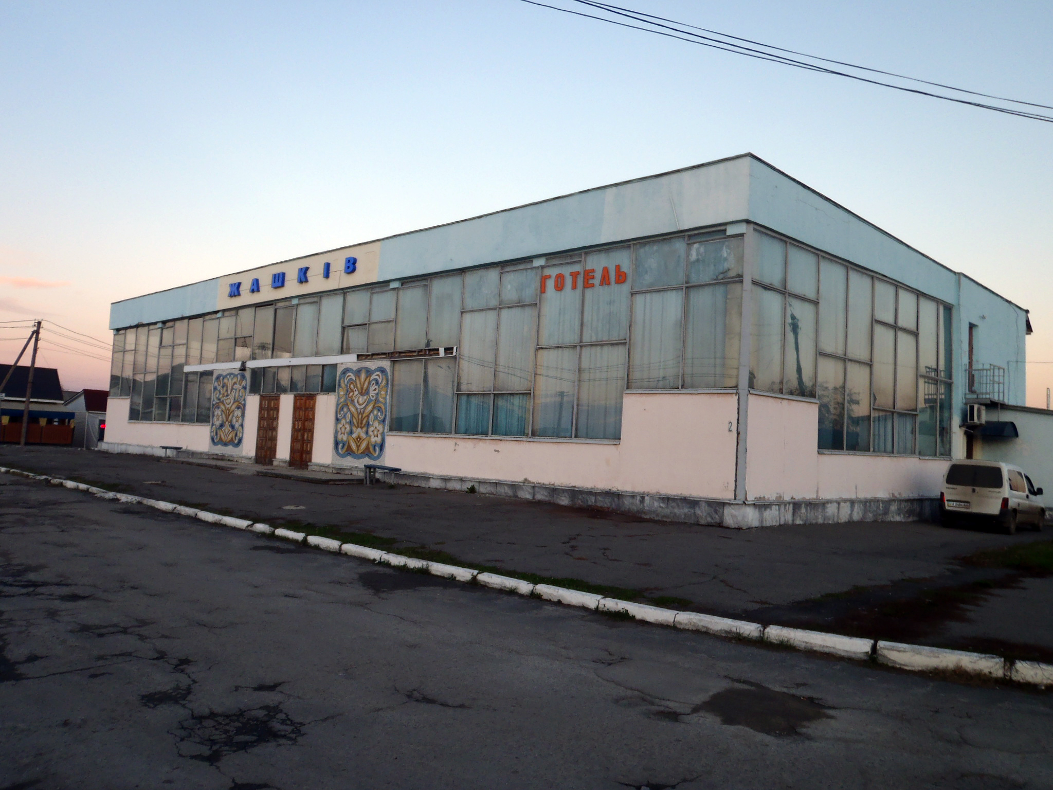 Zhashkov bus station